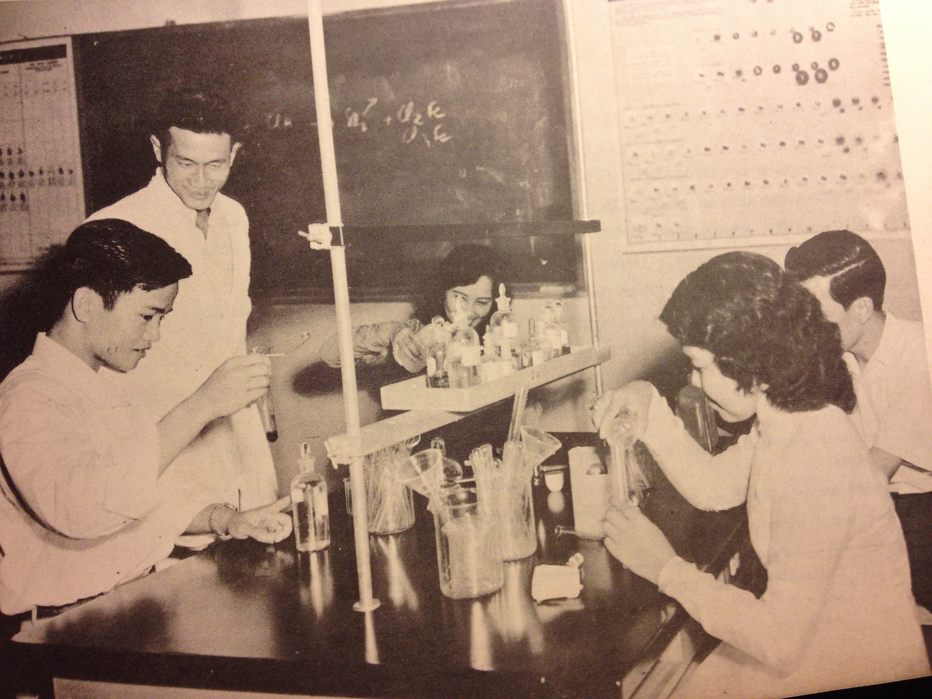 The National Agricultural College at Bao-locTiếng Việt: Trường Quốc gia Nông lâm mục, Bảo-lộc